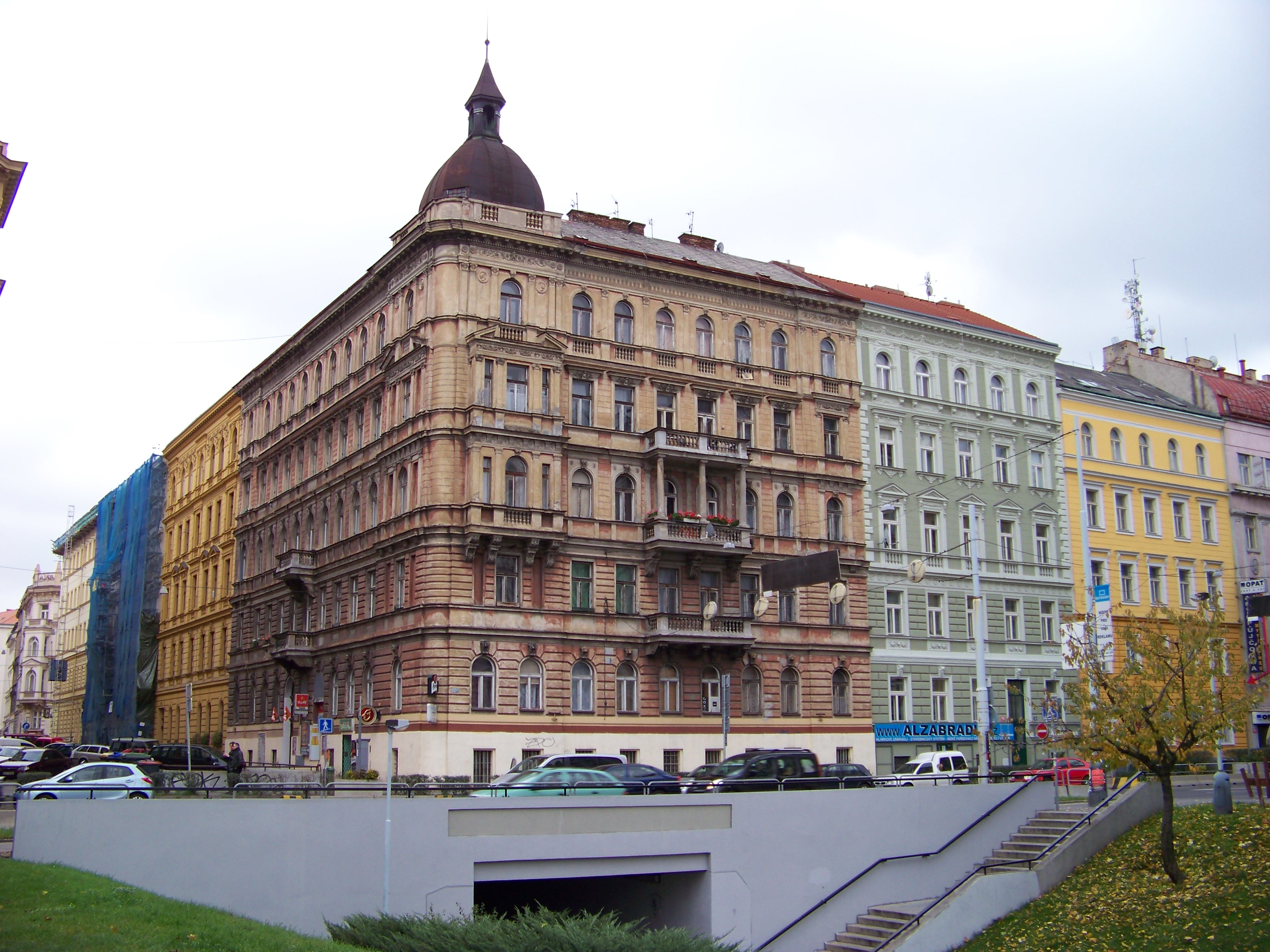 Prague-New Town, the Czech Republic. Fügnerovo náměstí, Legerova 1851/28, Koubkova 1851/2.